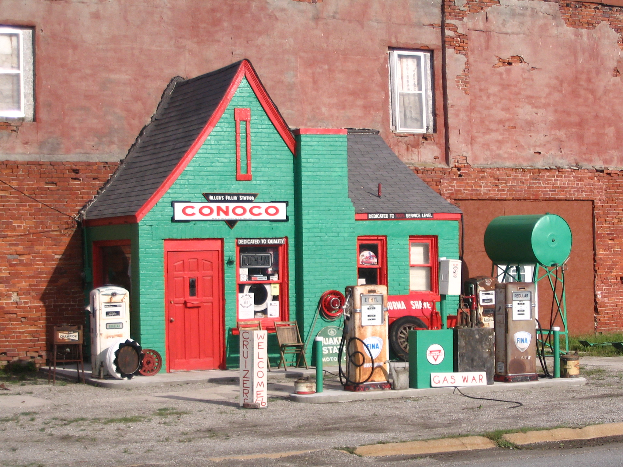 Old style Conoco Gas station, now a museum in Commerce, OK